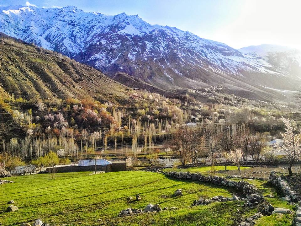 A photo taken in one of the beautiful villages (Zhiture, Zhiuture), Garam Chashma union council, KPK, during Spring 2015